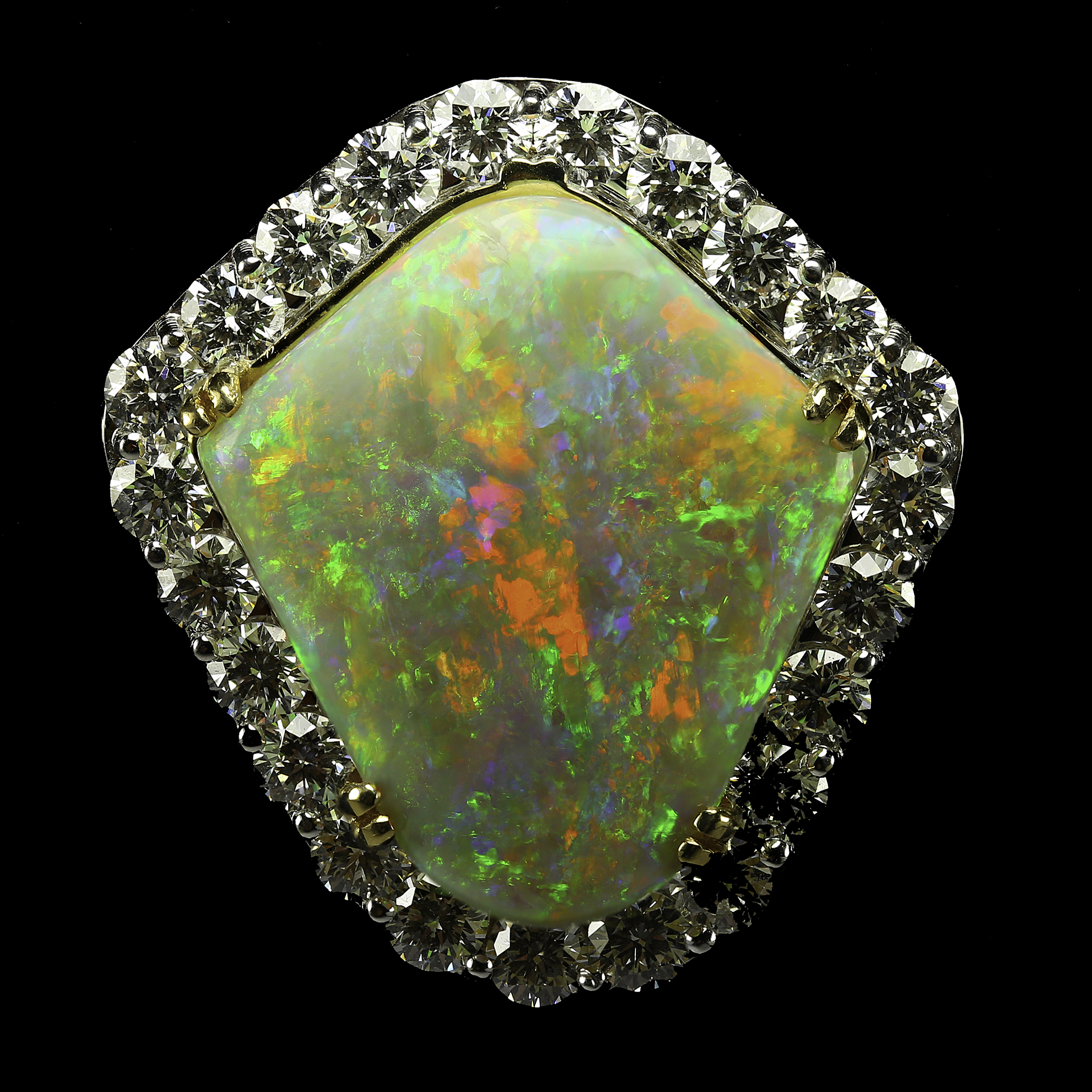 25.61 ct opal and diamond pendant jewelry. Gem crystal opal from Mintabie, South Australia, not Coober Pedy or Lightning Ridge.